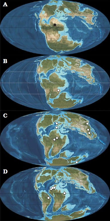 Generalized palaeogeographic locations of spinosaurids (white) and the specimen of HB site (black), through time from Bajocian–Bathonian (A), Tithonian (B), Barremian−Aptian (C), and Albian−Cenomanian (D).